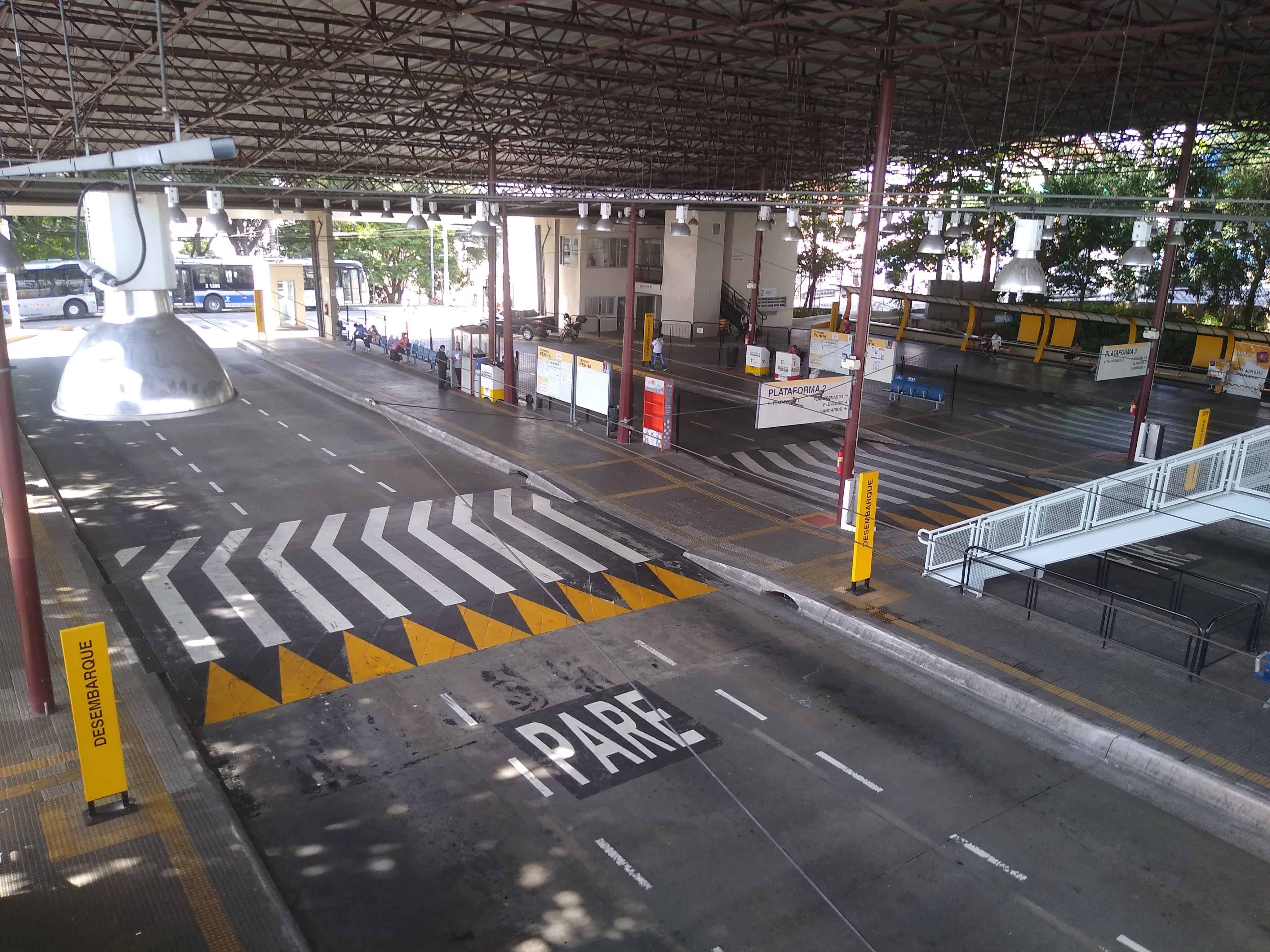 Instalações internas Terminal Penha